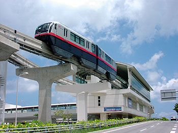 Naha Kuko(Airport) Station of Okinawa monorail